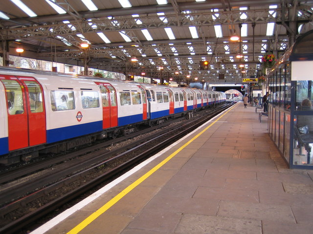 Queen's Park railway station The station serves both the Bakerloo Line and London Overground trains. The original Baker Street and Waterloo Railway (hence Bakerloo) opened in 1906 to Baker Street and was extended here to Queen's Park in 1915. The service was then extended to Watford Junction, only to be subsequently terminated. Since 1989 Bakerloo Line trains have run northwards as far as Harrow and Wealdstone station. Here a southbound Bakerloo Line train is about to depart for Elephant & Castle. By a quirk of the geometry of the railway line, and demonstrating the schematic nature of the classic Underground map, northbound Bakerloo Line trains leaving Queen's Park for Kensal Green actually travel more southwards than northwards, whereas the map shows the line heading due north.